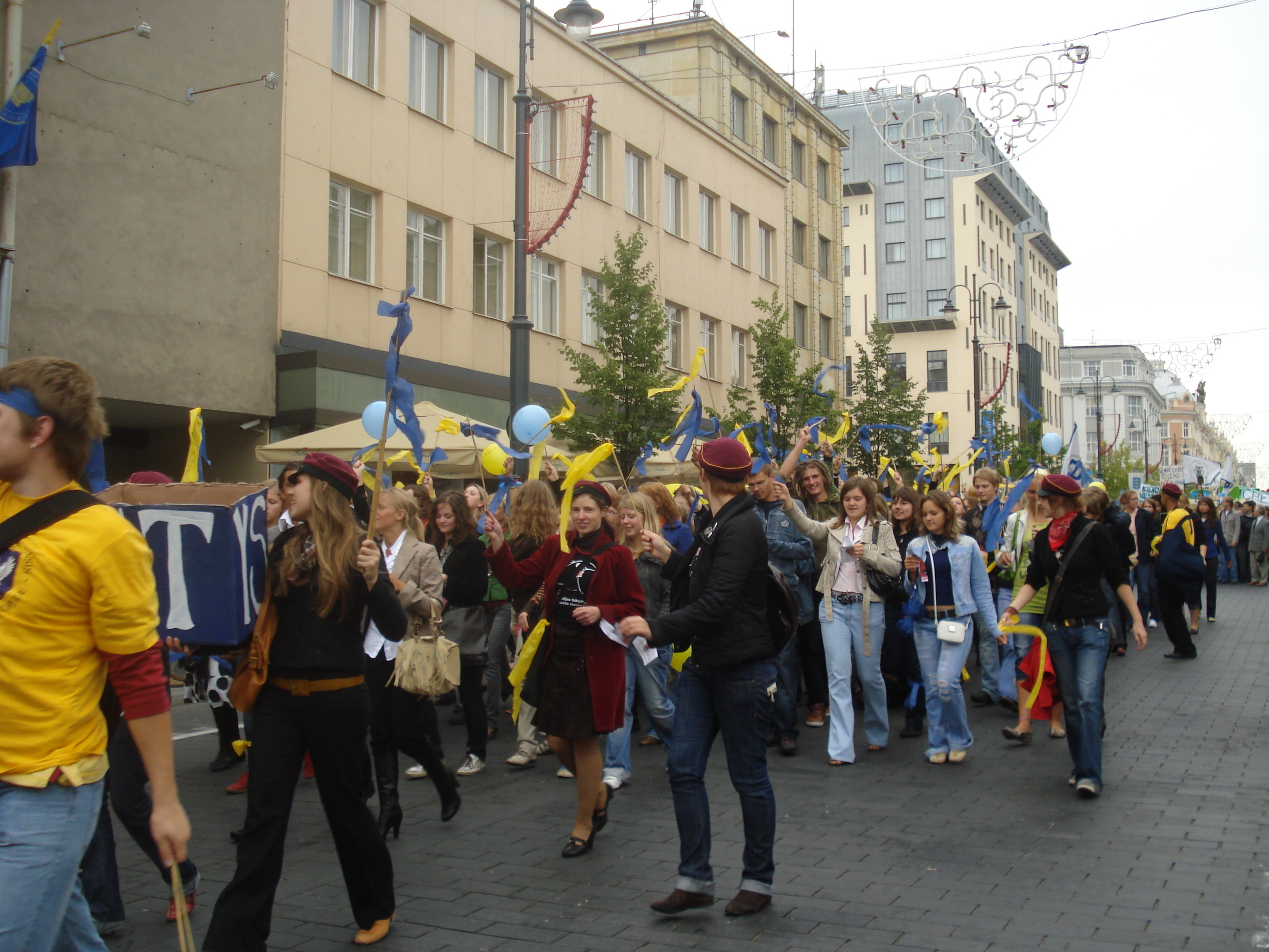 March of the Vilnius University through the Gediminas Avenue on the occasion of new academic year